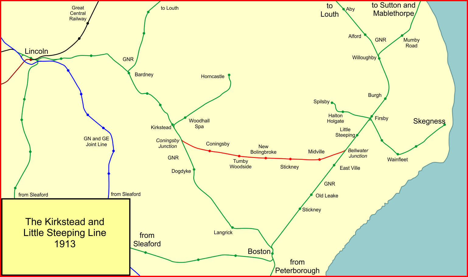 Diagram of the Kirkstead to Little Steeping New Line in Lincolnshire, England, built by the Great Northern Railway